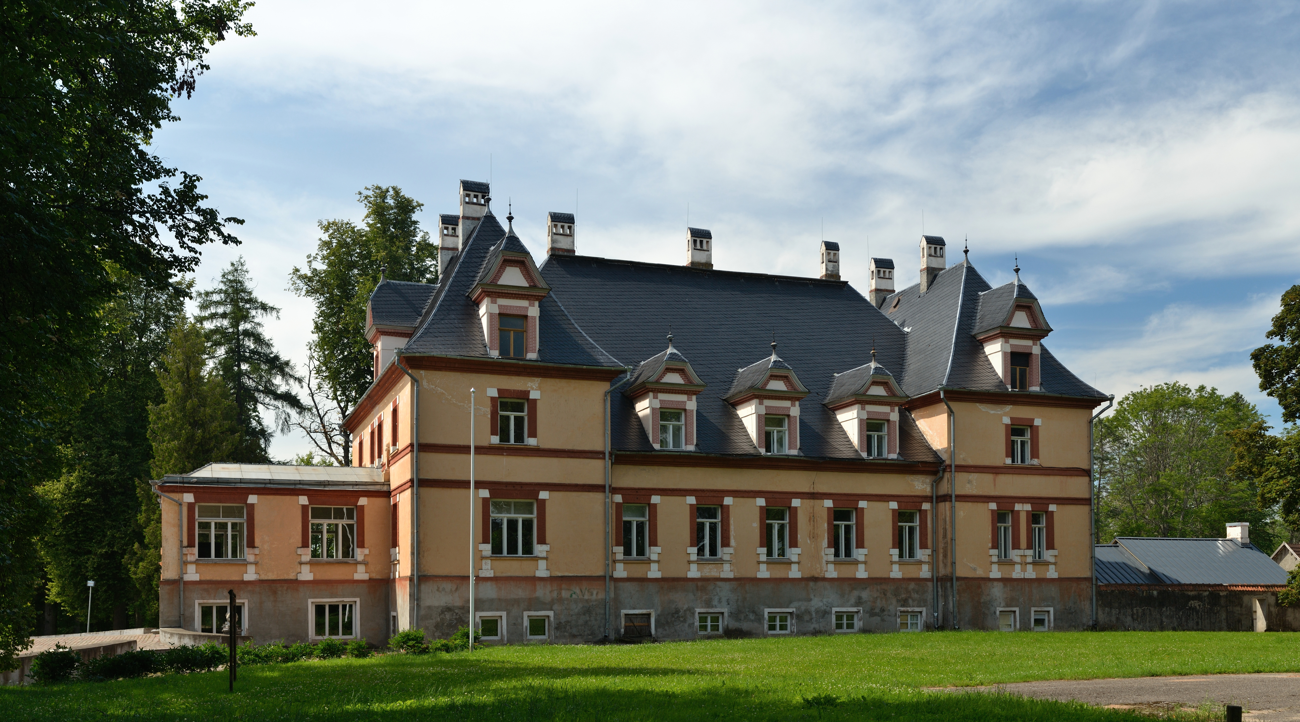 Mooste manor main building